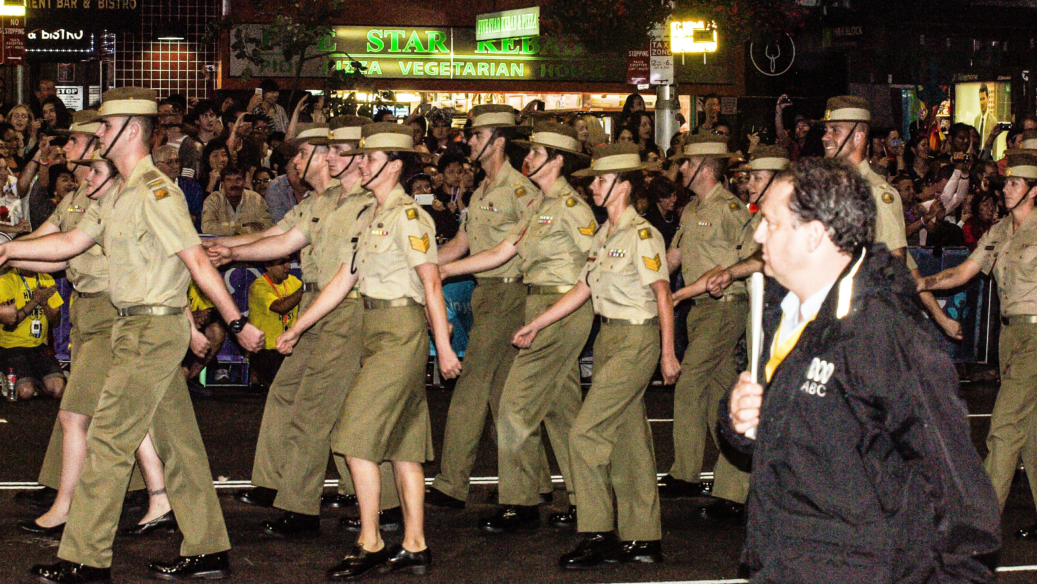 Mardi Gras in Sydney Australia